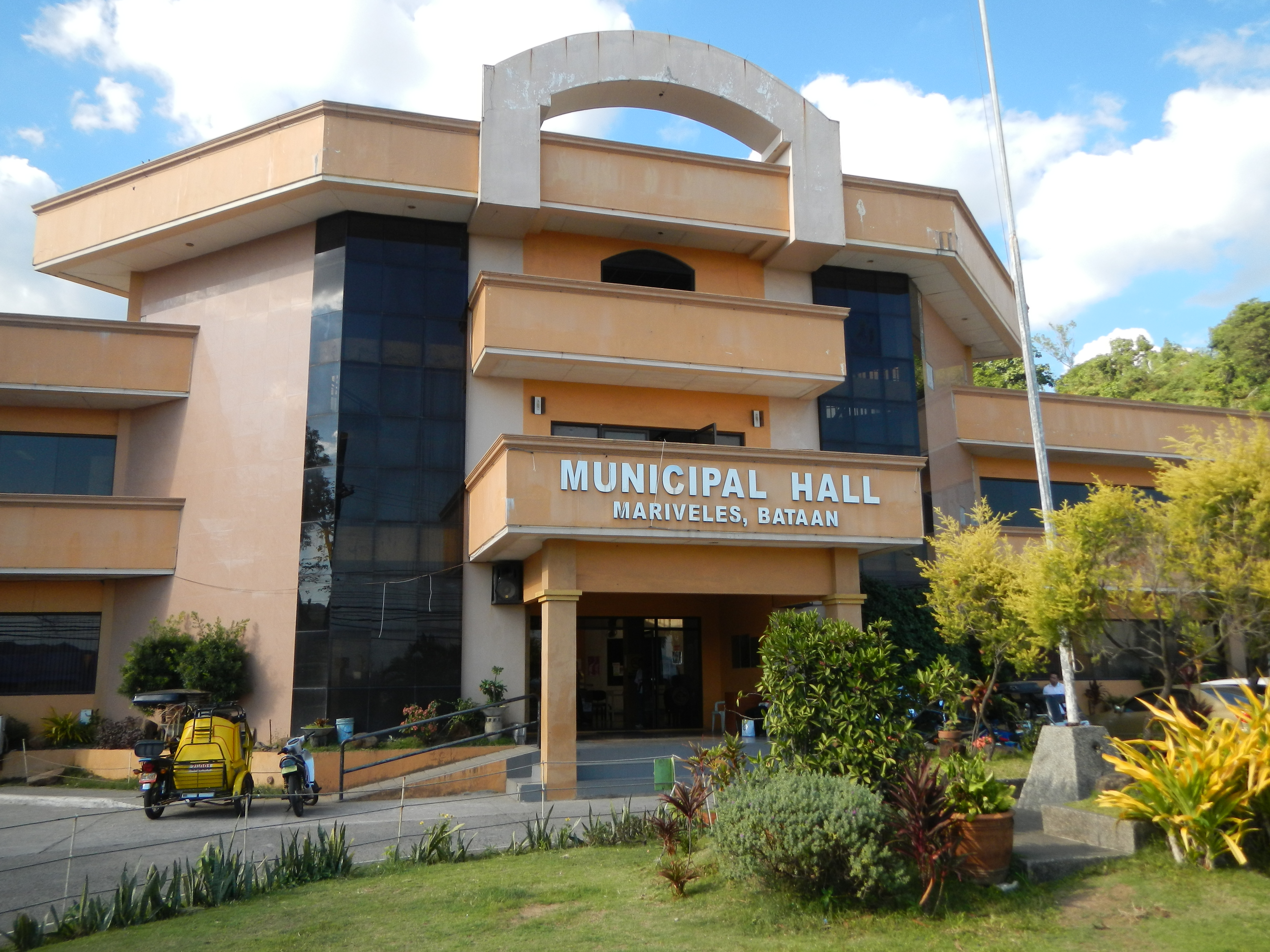 [1]Mariveles, Bataan is a 1st class municipality in the province of Bataan, Philippines. According to the 2007 census, it has a population of 102,844 people in 19,460 households. Population growth rate per annum is 4.71%, twice that of the province itself.[2]